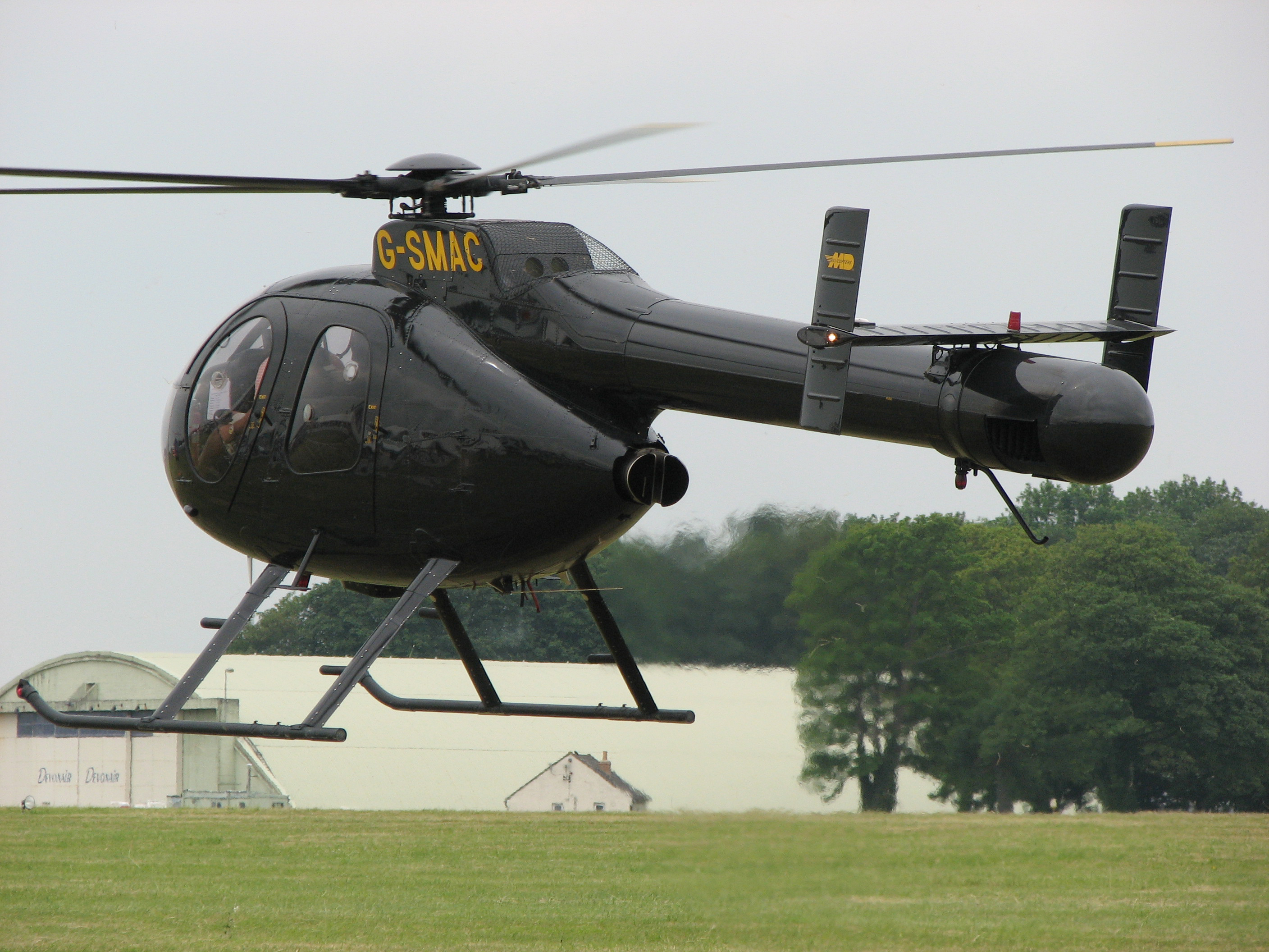 A MD500N helicopter (G-SMAC, built 1992) at Kemble Airfield, Gloucestershire, England.